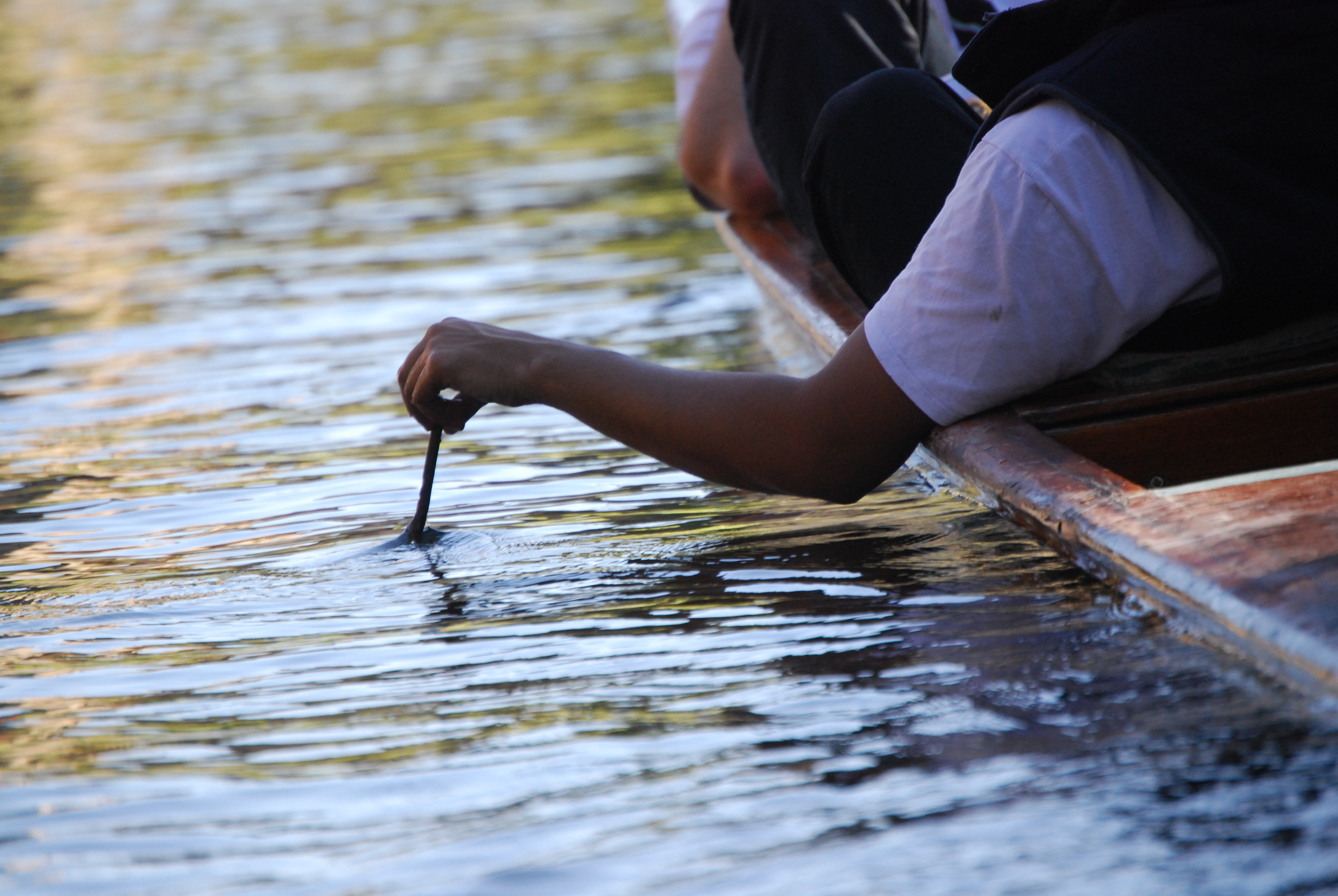 Arm trails in the water in summer